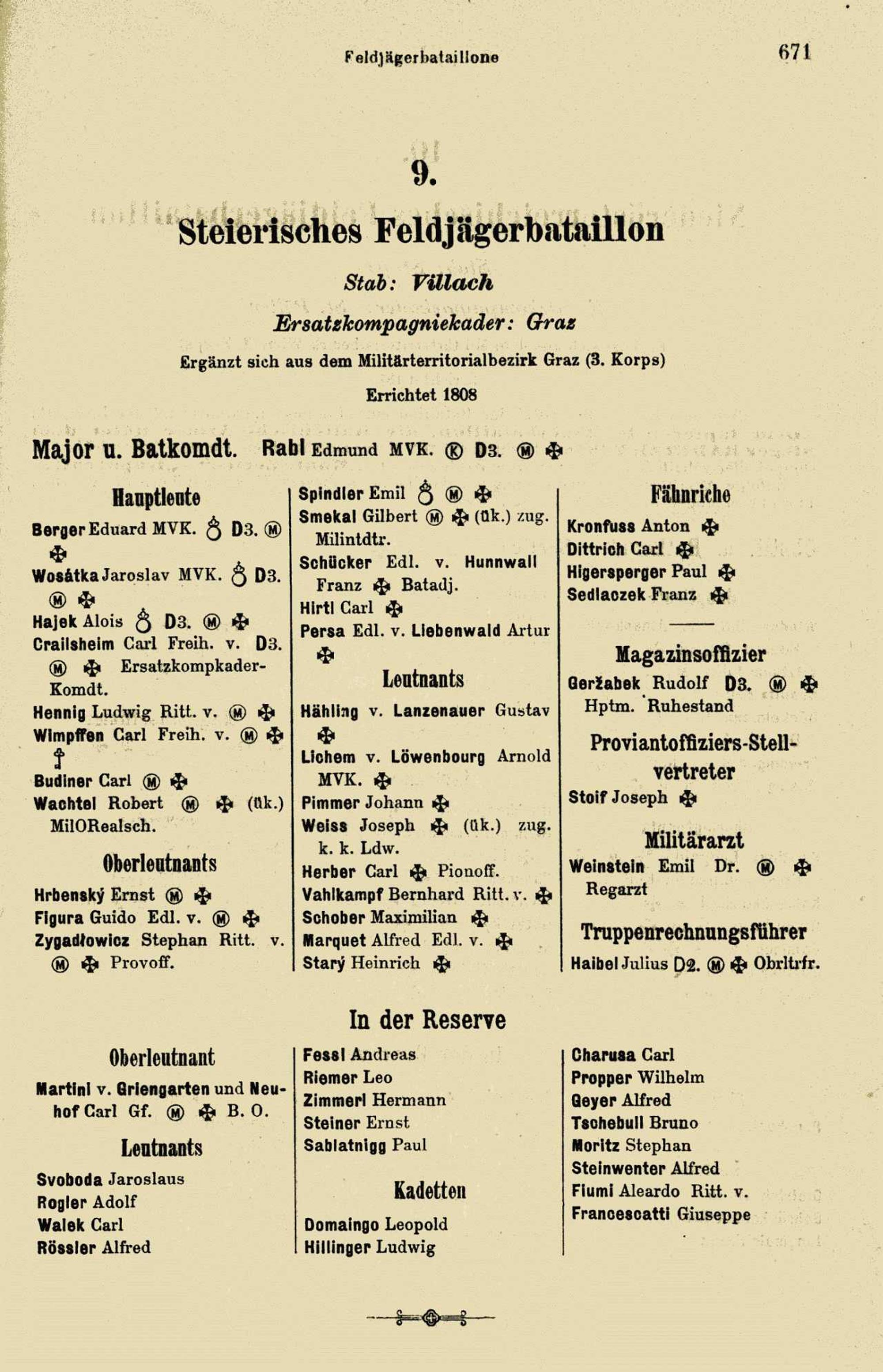 Officers list of 1909 of the Austria-Hungarian Rifles Battalion No. 9